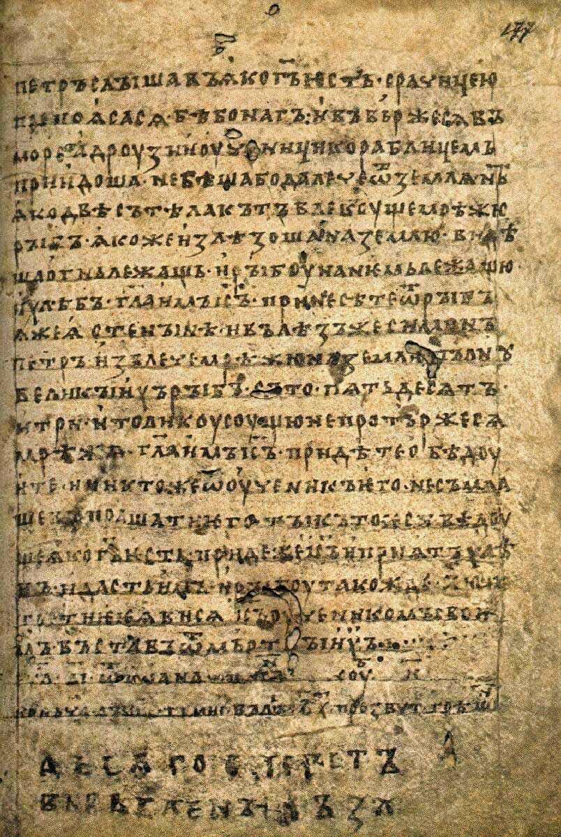 Arkhangelsk Gospel